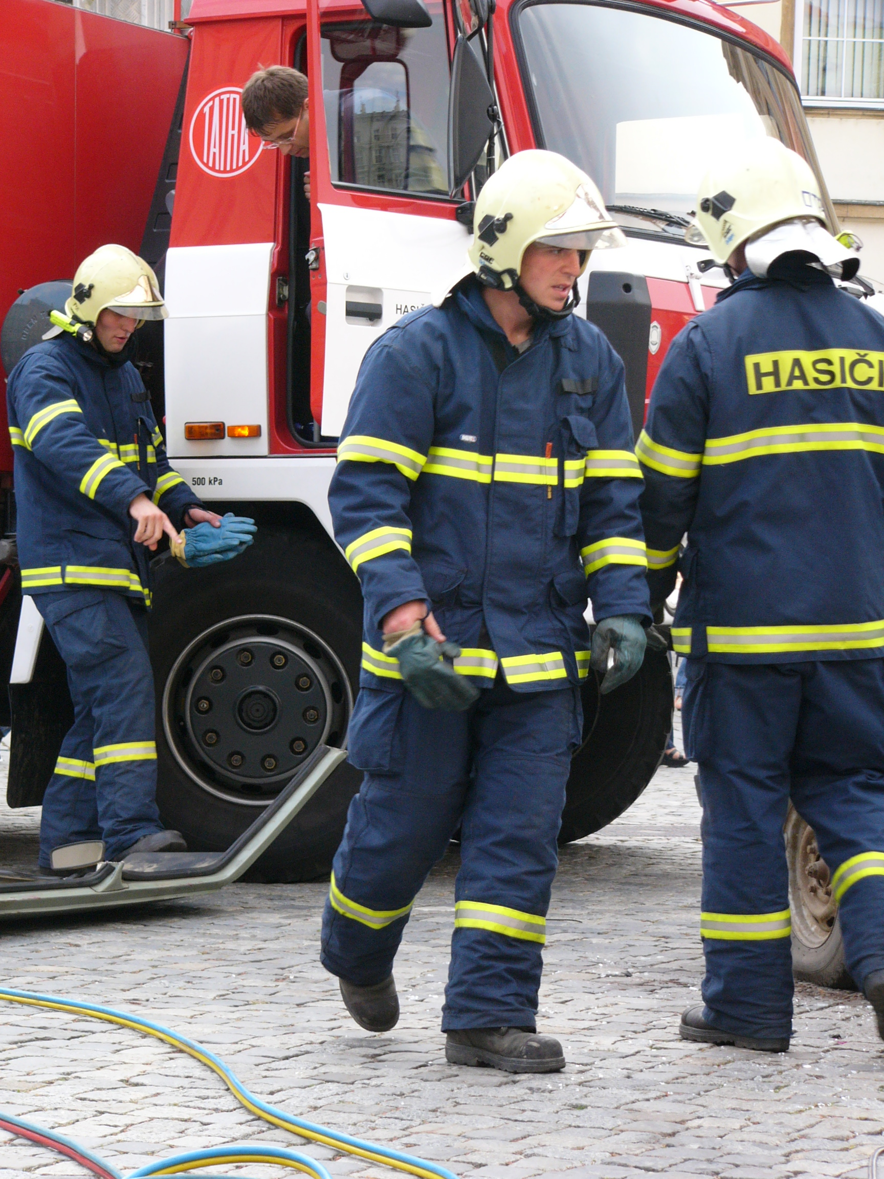 Uniforms of Firemen in The Czech Republic.